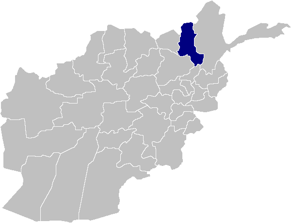 Location map for Takhar Province in Afghanistan. Original map source: Image:Afghanistan_provinces_blank.png